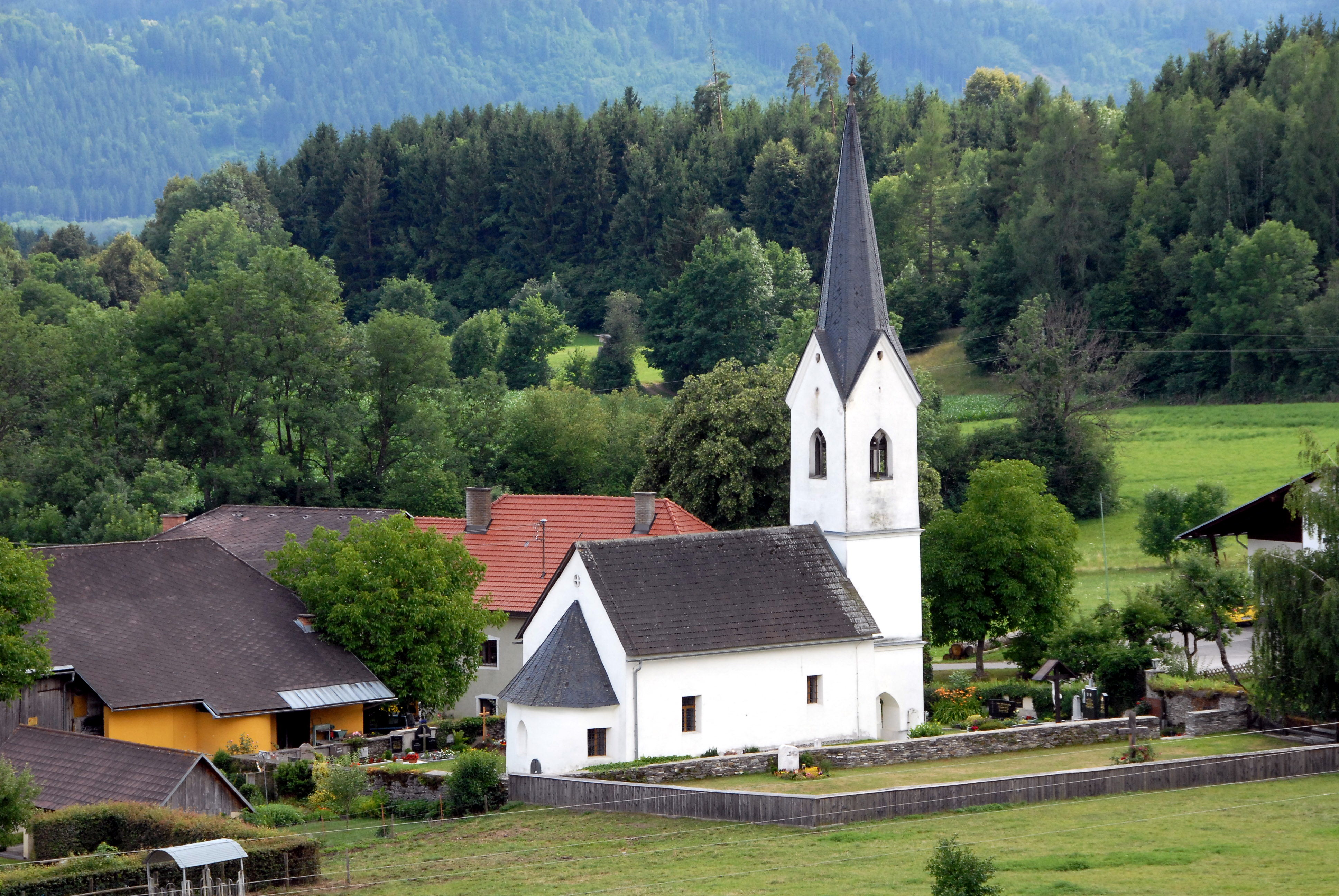 Subsidiary church Saint Margaret, Dorfstrasse #77, Treffelsdorf, municipality Frauenstein, district Sankt Veit an der Glan, Carinthia, Austria, EU